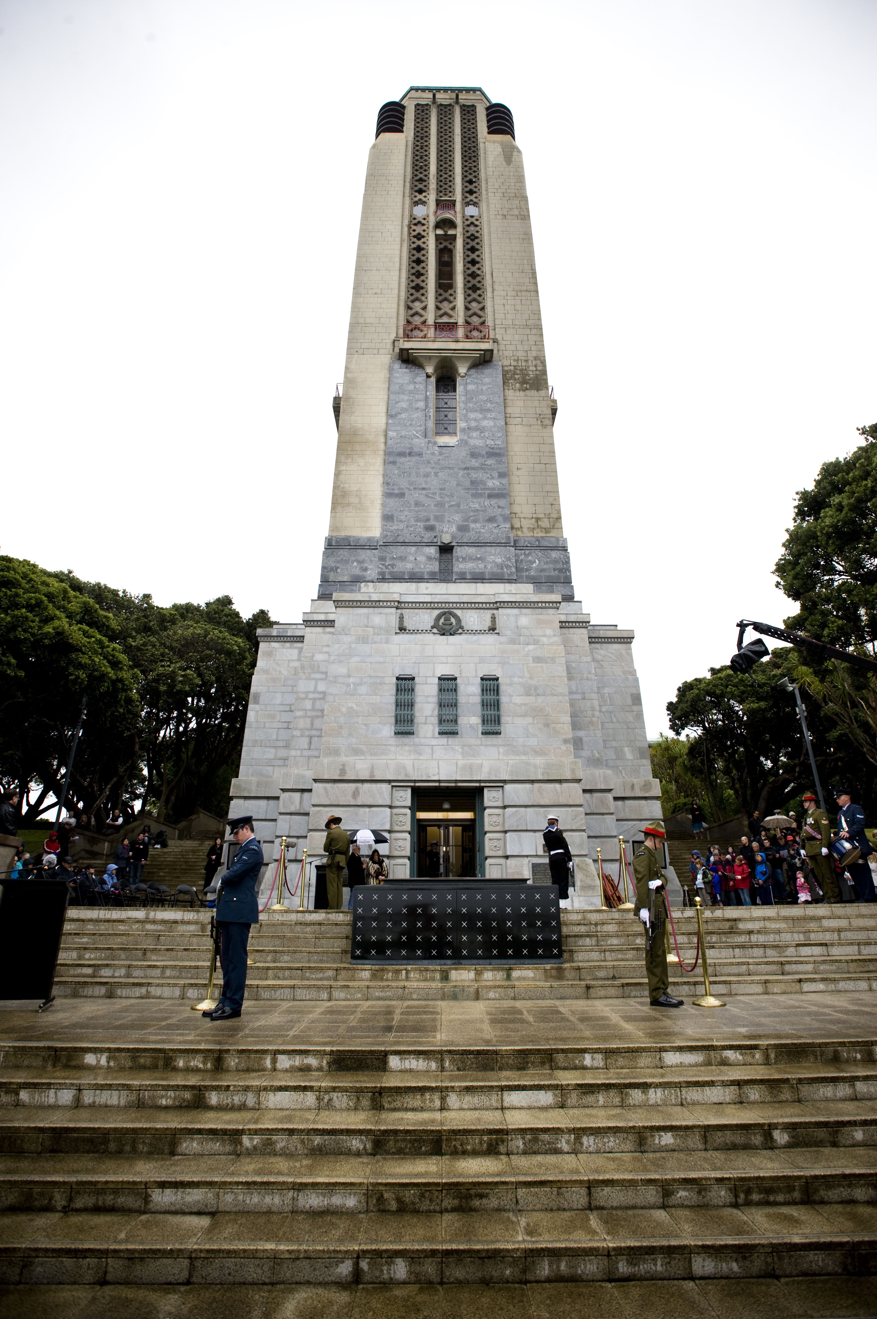 ANZAC Day service at the National War Memorial Wellington. A Tri-Service vigil watches over the Tomb of the Unknown Warrior 20110425_WN_S1015650_0014.jpg Crown Copyright 2011, NZ Defence Force – Some Rights Reserved.